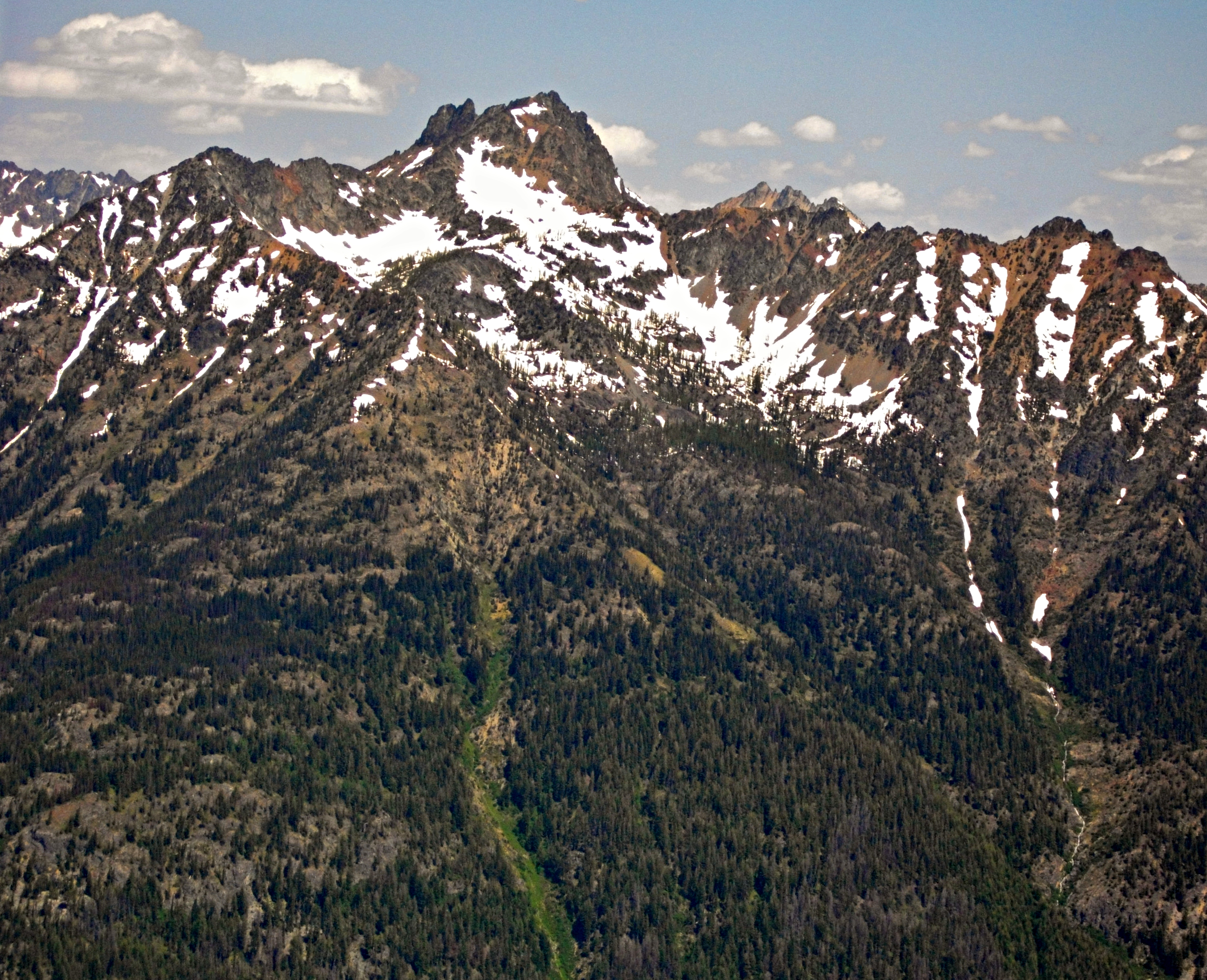 Riddle Peak seen from Buckskin Ridge. North Cascades of WA